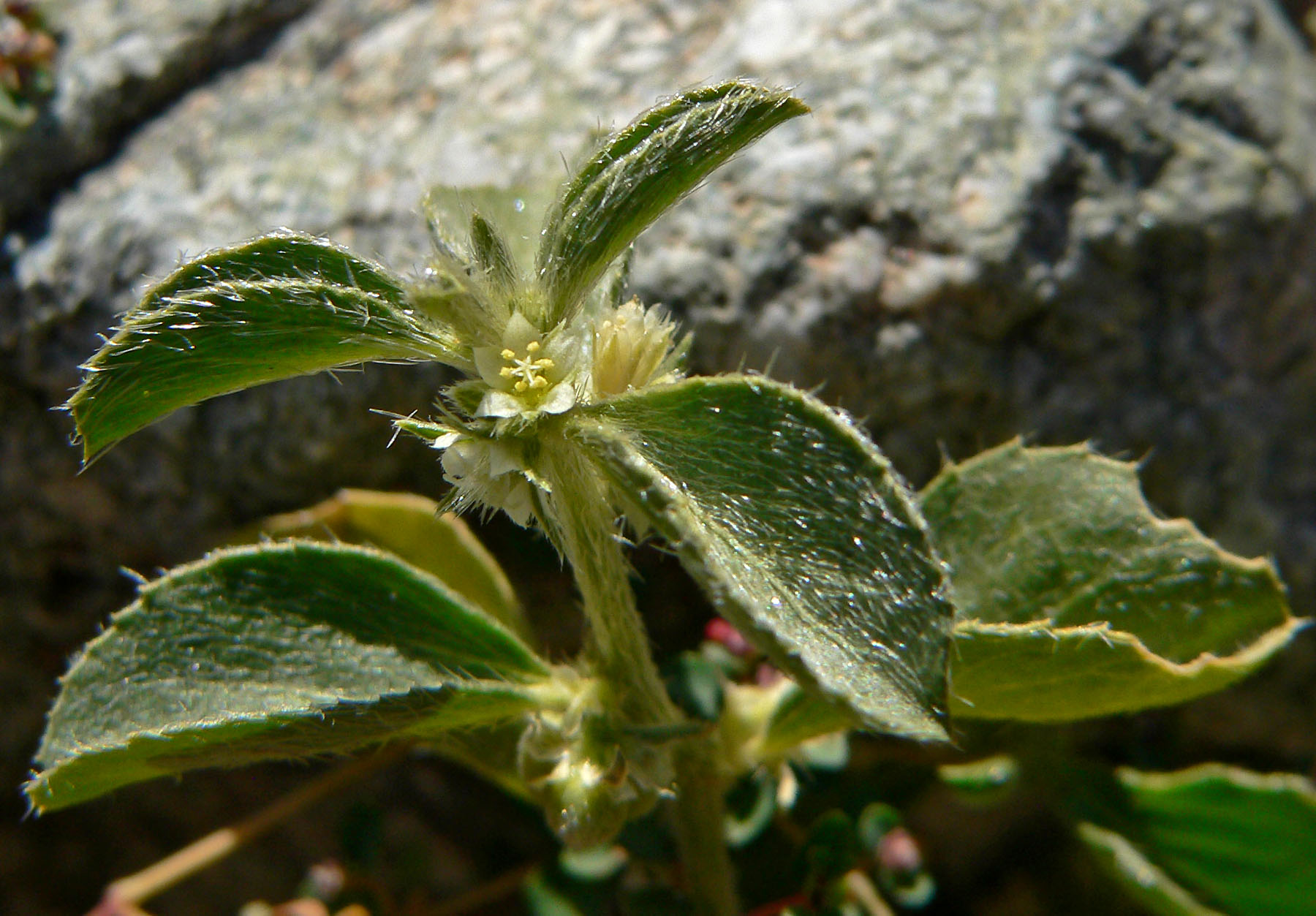 Argythamnia serrata in gully above wash east of the Dead Mountains near junction of Needles Highway and River Road, southern California